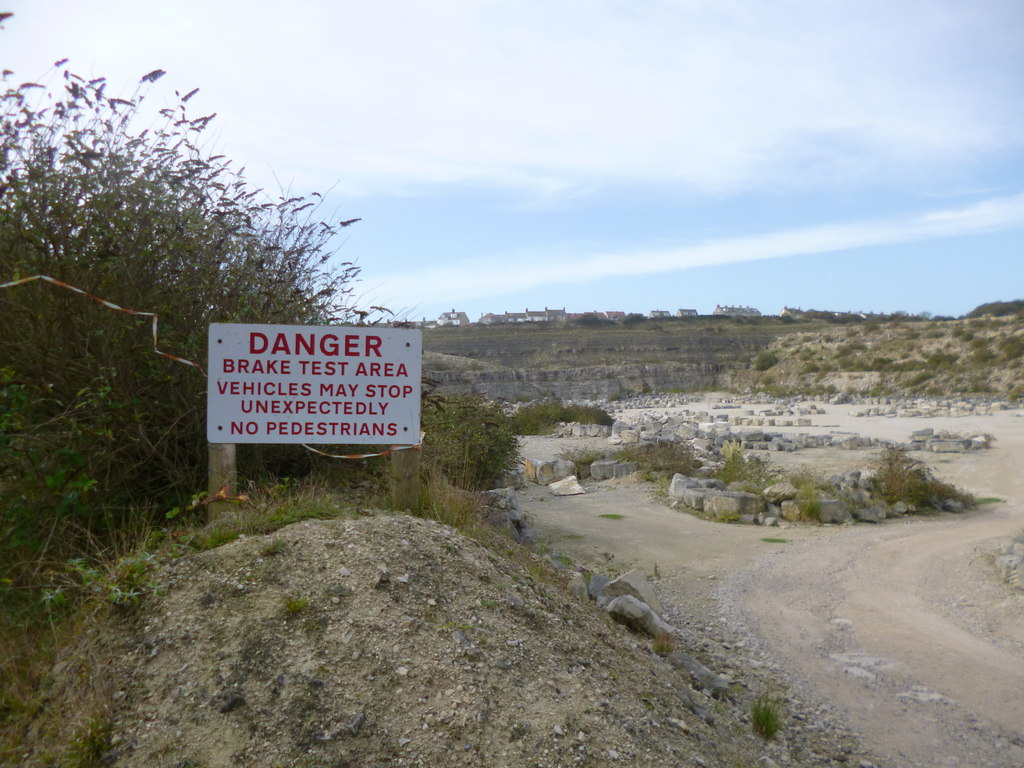 Southwell, warning sign, Coombefield Quarry, Portland